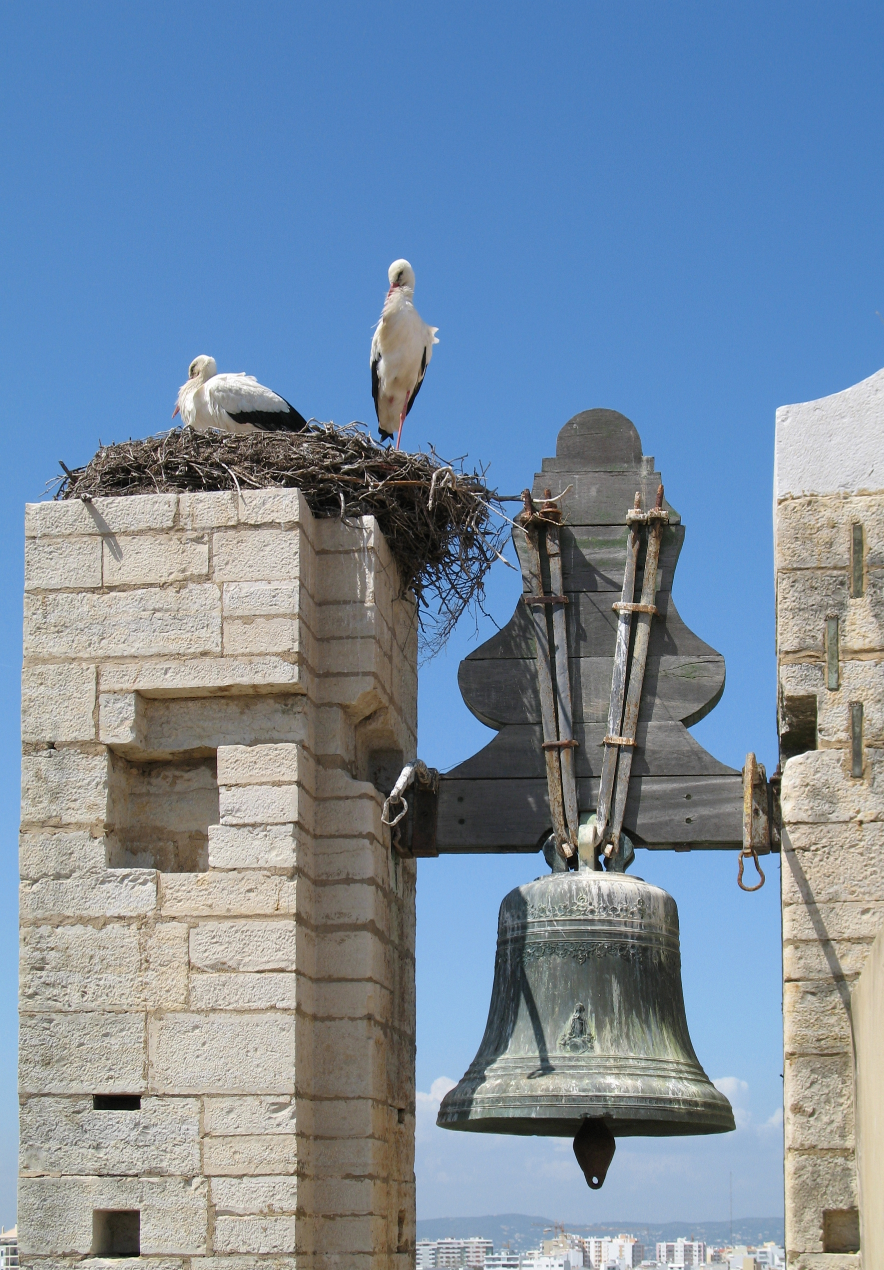 Faro (Algarve, Portugal): bell-tower of the Cathedral